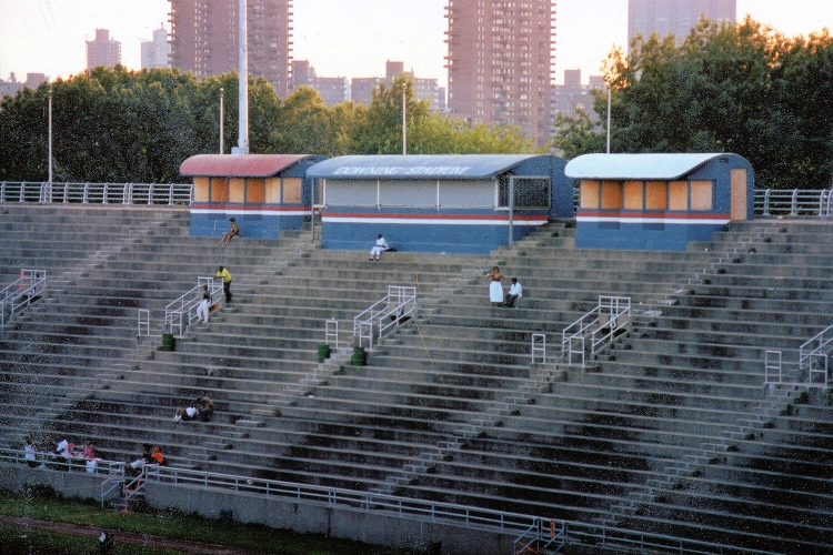 Looking west at Downing Stadium, Randalls Island, New York City. Circa 1990 during music concert. Note boarded-up press box. Copyright 2006 - Robert S. Anthony, Stadium Circle Features